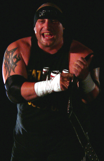 An image of professional wrestler Tony DeVito in 2005.